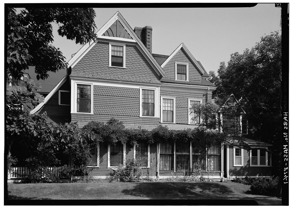 Henry Van Brunt House, 167 Brattle Street, Cambridge, Massachusetts, USA. Built 1883; architect Henry Van Brunt. "One of the best and finest Queen Anne-style houses in Cambridge, designed as his own residence by Henry Van Brunt, one of the foremost American architects of the period." In 1917 it was converted into two houses.